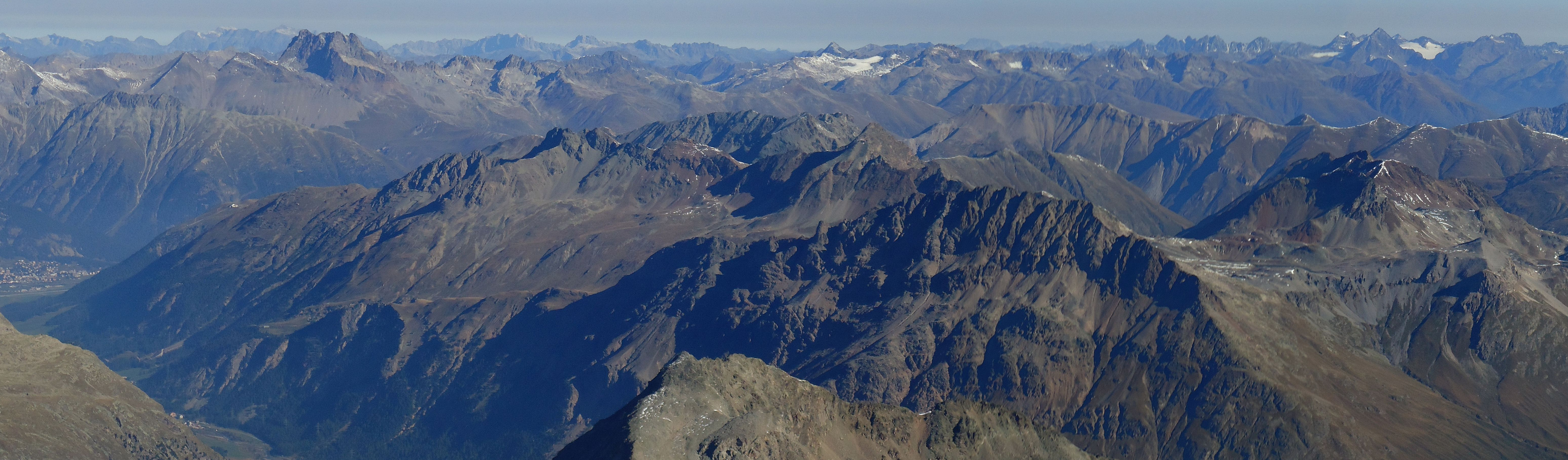 Surrounding of Piz Languard, picture taken from Piz Palü (Pontresina/La Punt-Chamues-ch, Grison, Switzerland)